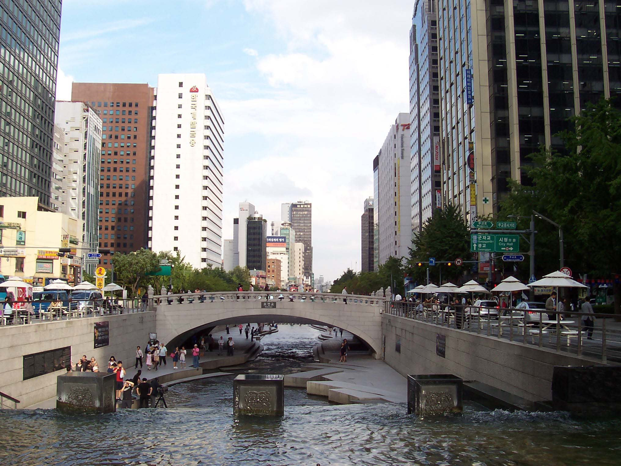 Cheonggyecheon,Seoul